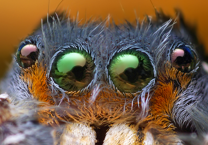 Eyes of a Phidippus putnami